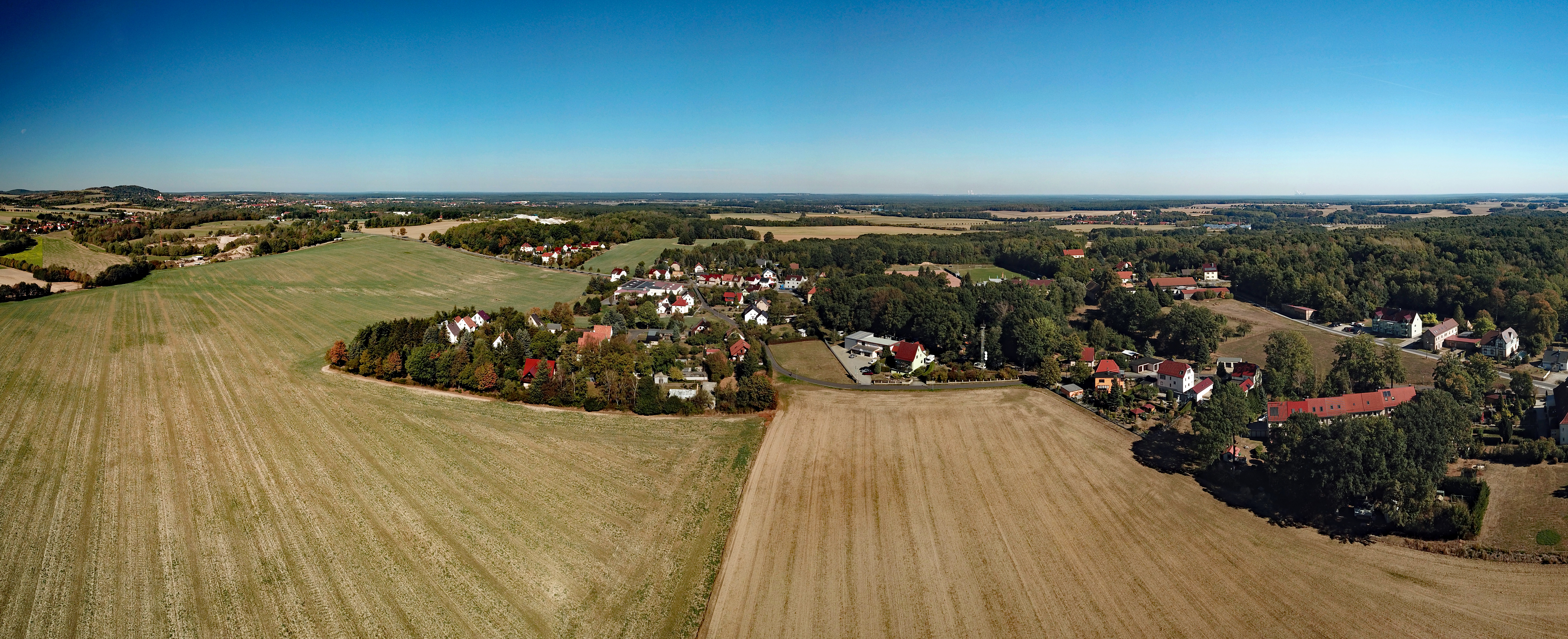 Thonberg (Kamenz, Saxony, Germany) Hornjoserbsce: Powětrowy wobraz Hlinowca